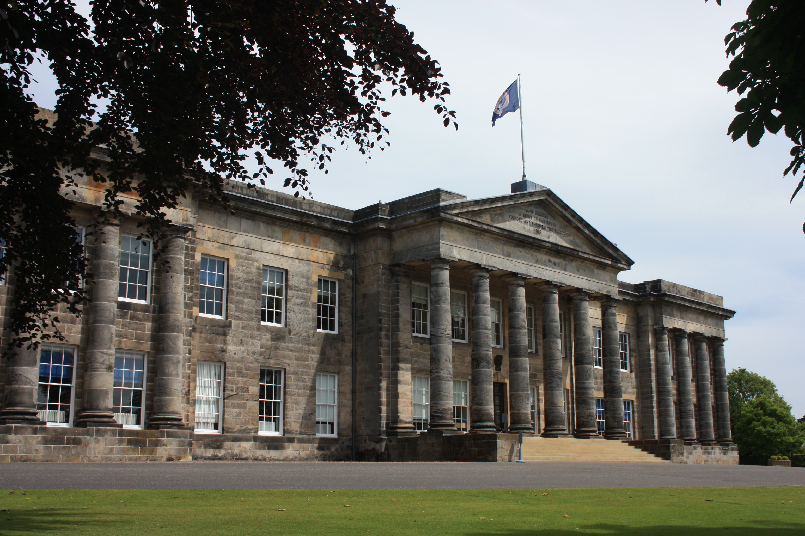 Main (west) facade of Dollar Academy